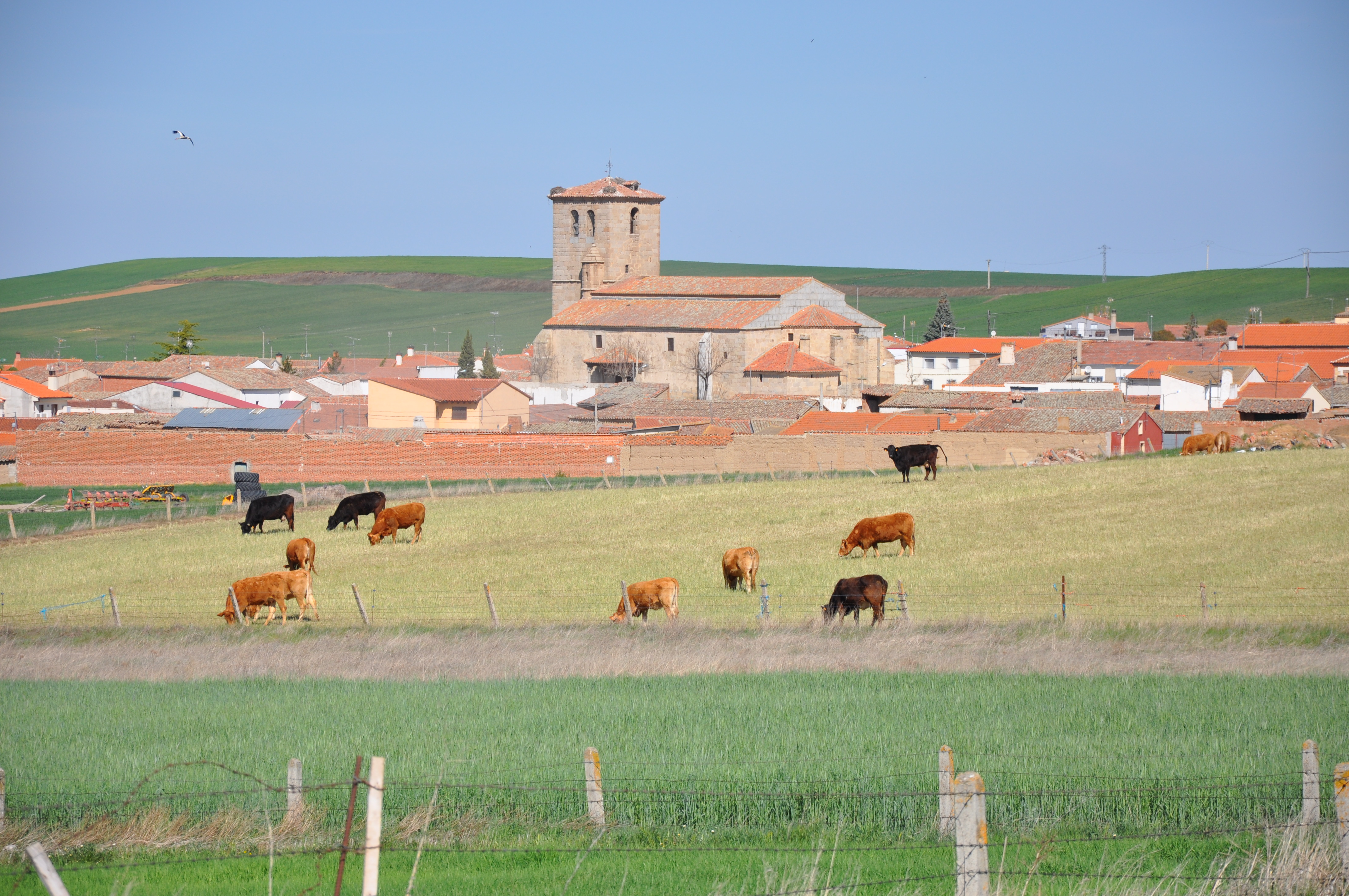 Overview of Mancera de Abajo, Salamanca, Spain.